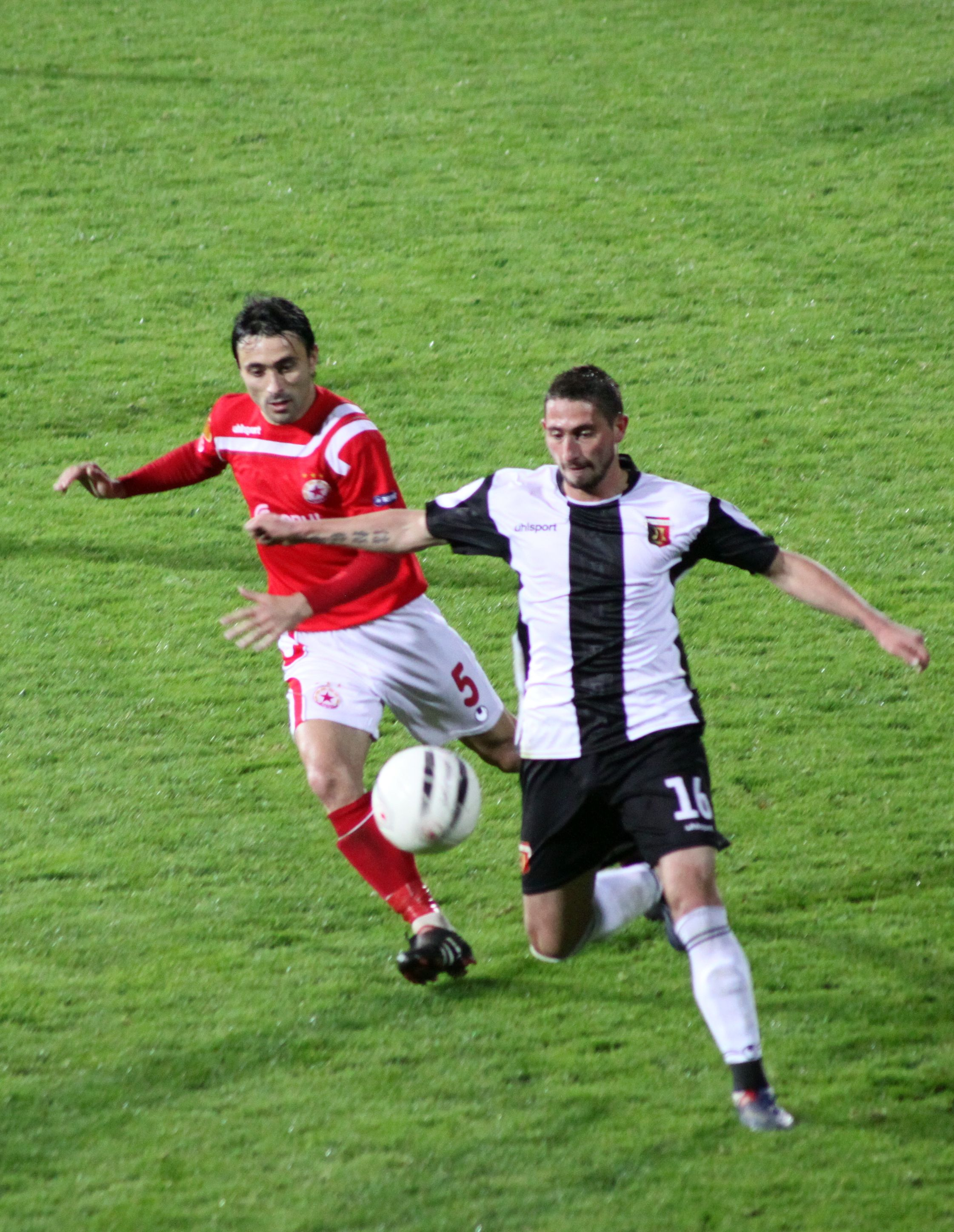 Todor Yanchev (left)- Bulgarian professional football midfielder, who plays for CSKA Sofia, defensive midfielder.